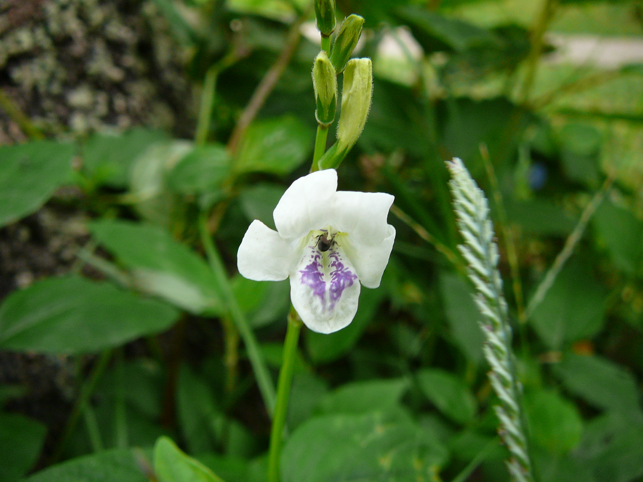 Asystasia gangeticaIdentification by this website